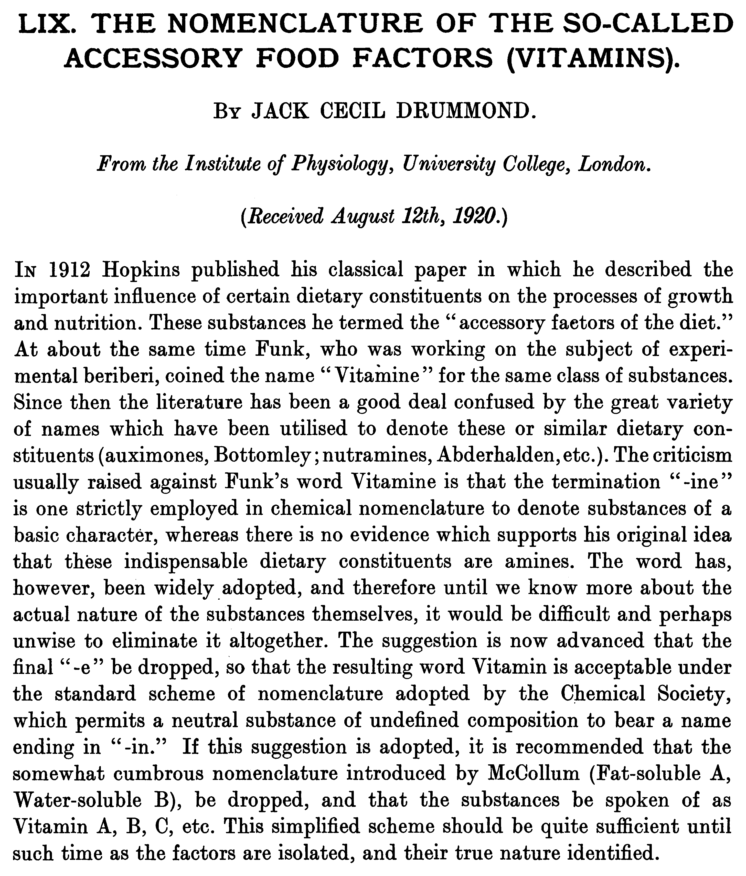 The single-paragraph article which provided the structure and name of the compounds known today as vitamins J. C. Drummond, “The Nomenclature of the So-called Accessory Food Factors (Vitamins)”, Biochemical Journal (1920), 14:660 In 1912 Hopkins published his classical paper in which he described the important influence of certain dietary constituents on the processes of growth and nutrition. These substances he termed the "accessory factors of the diet." At about the same time Funk, who was working on the subject of experimental beriberi, coined the name "Vitamine" for the same class of substances. Since then the literature has been a good deal confused by the great variety of names which have been utilised to denote these or similar dietary constituents (auximones, Bottomley; nutramines, Abderhalden, etc.). The criticism usually raised against Funk's word Vitamine is that the termination "-ine" is one strictly employed in chemical nomenclature to denote substances of a basic character, whereas there is no evidence which supports his original idea that these indispensable dietary constituents are amines. The word has, however, been widely adopted, and therefore until we know more about the actual nature of the substances themselves, it would be difficult and perhaps unwise to eliminate it altogether. The suggestion is now advanced that the final "-e" be dropped, so that the resulting word Vitamin is acceptable under the standard scheme of nomenclature adopted by the Chemical Society, which permits a neutral substance of undefined composition to bear a name ending in "-in." If this suggestion is adopted, it is recommended that the somewhat cumbrous nomenclature introduced by McCollum (Fat-soluble A, Water-soluble B), be dropped, and that the substances be spoken of as Vitamin A, B, C, etc. This simplified scheme should be quite sufficient untilsuch time as the factors are isolated, and their true nature identified.